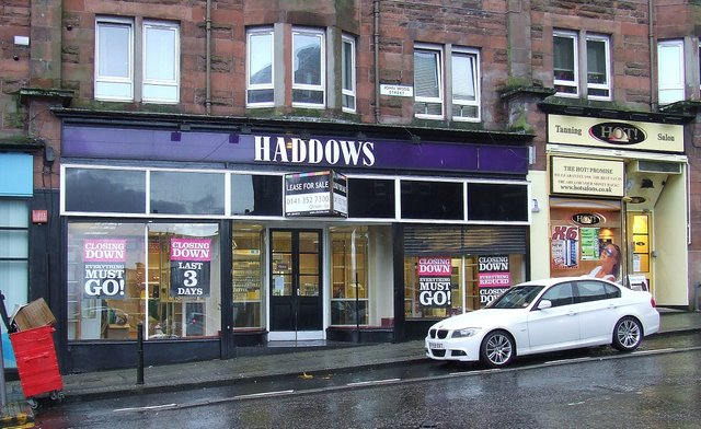 Haddows closing down sale 3 days of trading remain in the John Wood Street shop, Port Glasgow.